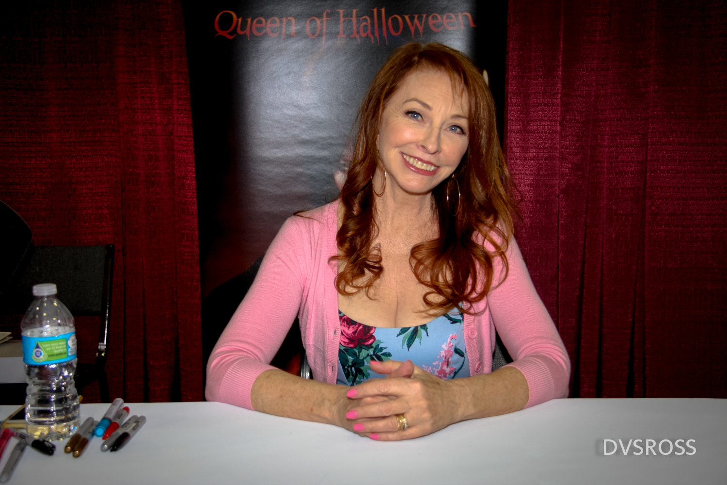 Cassandra Peterson at RuPaul's Dragcon 2017